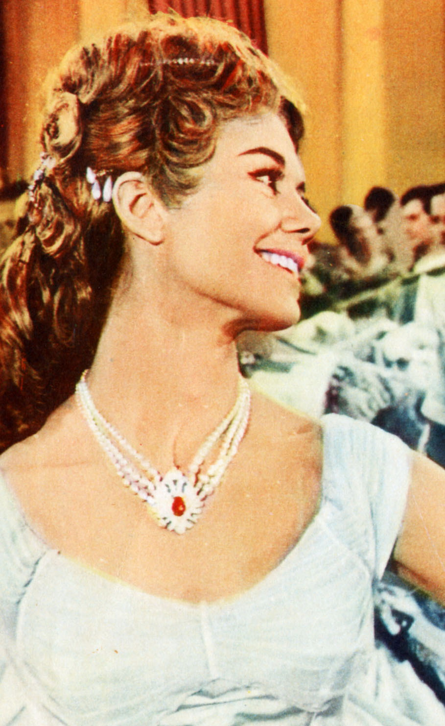 screenshot from the film I Cosacchi (1960)